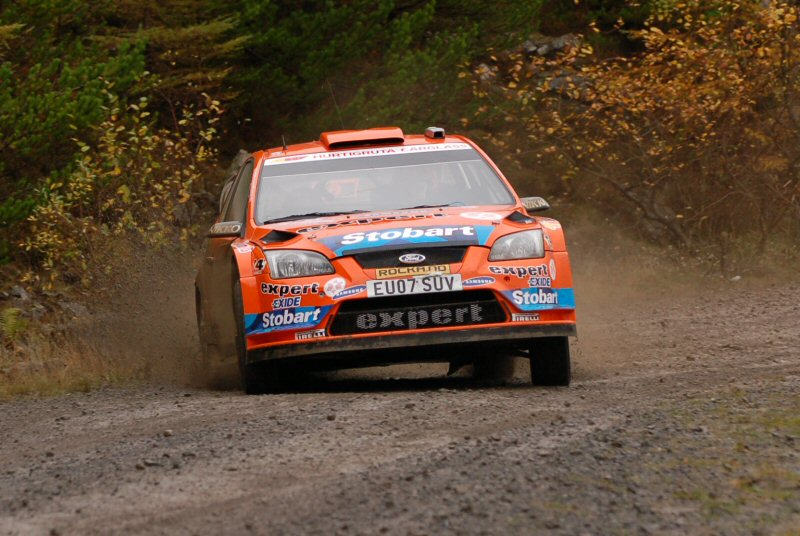 Henning Solberg at the 2009 Rally GB, 2009-10-24.